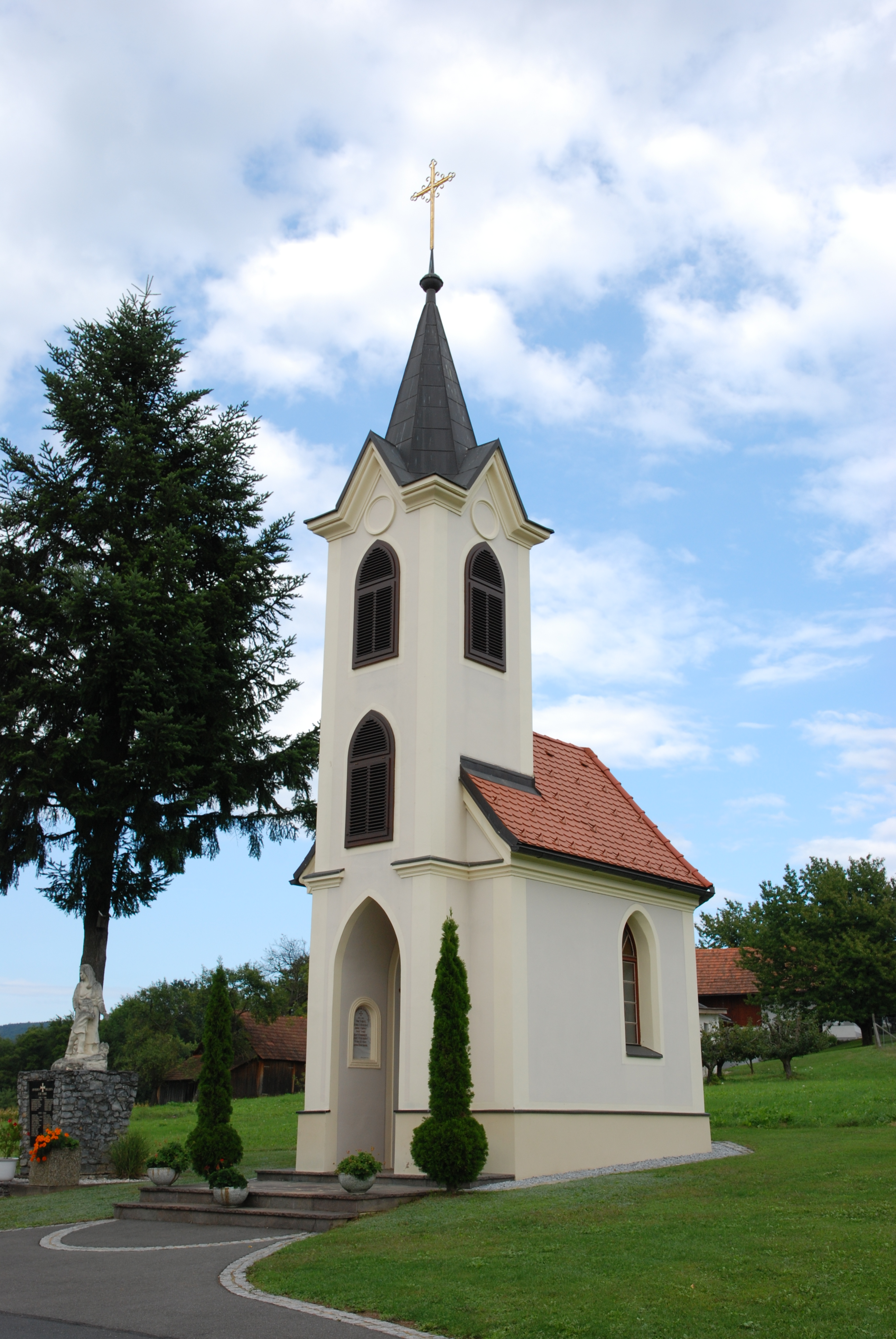 Kapelle Neusetz